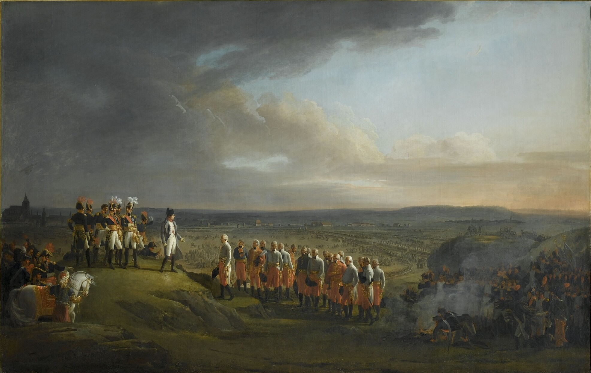 Napoleon takes the surrender of General Mack and the Austrians at Ulm on October 20, 1805 (search with the terms "Reddition d'Ulm" and check the box)